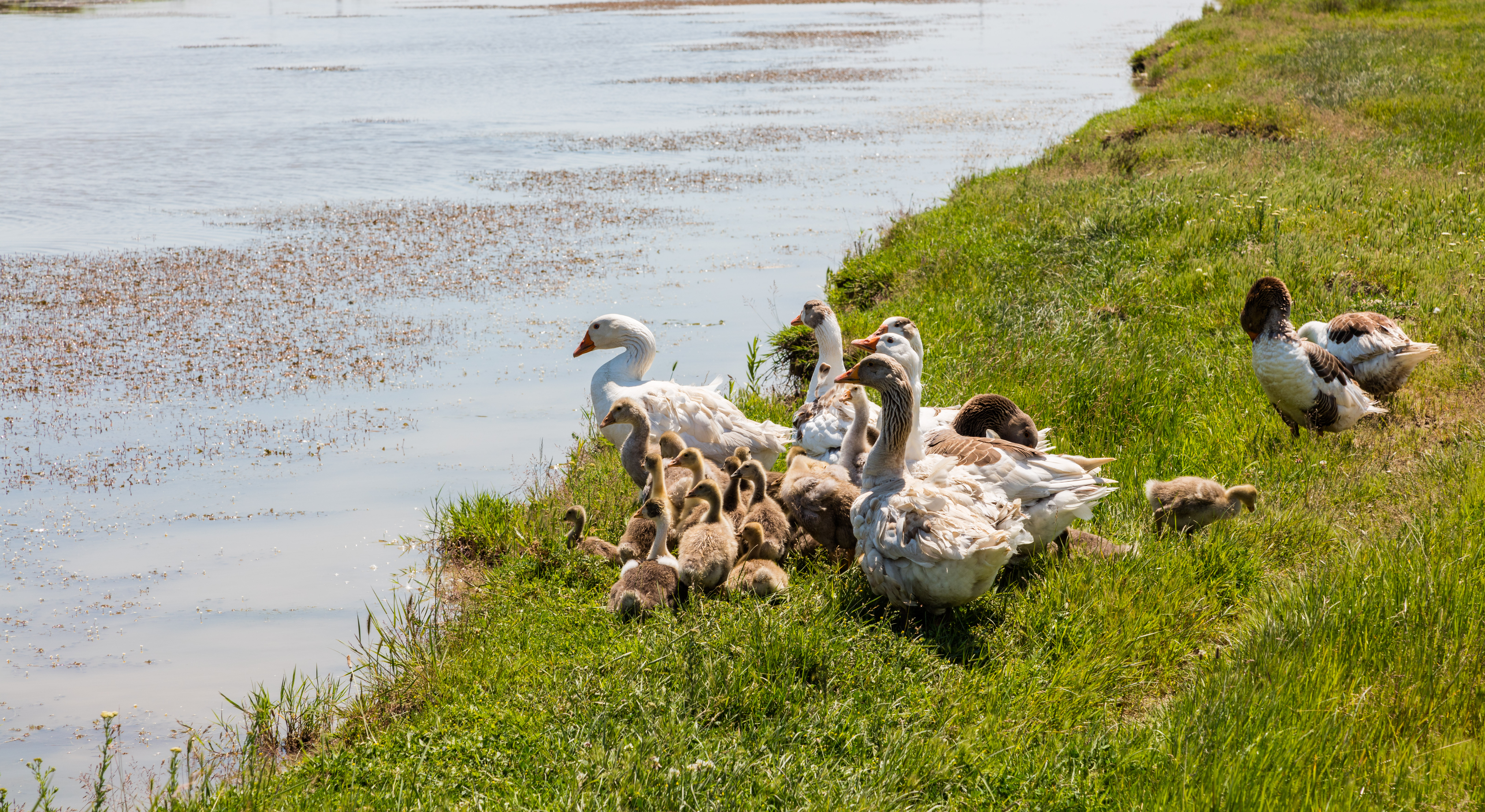 Greylag Goose (Anser anser) nexto to the Bruzau river, Surdila Greci, Romania